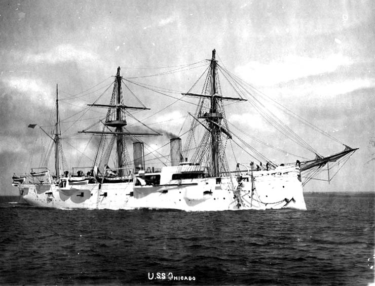 USS Chicago (1889-1936) underway at sea, circa the early 1890s. Original caption: “Photo # NH 61549 USS Chicago, circa early 1890s” — removed caption